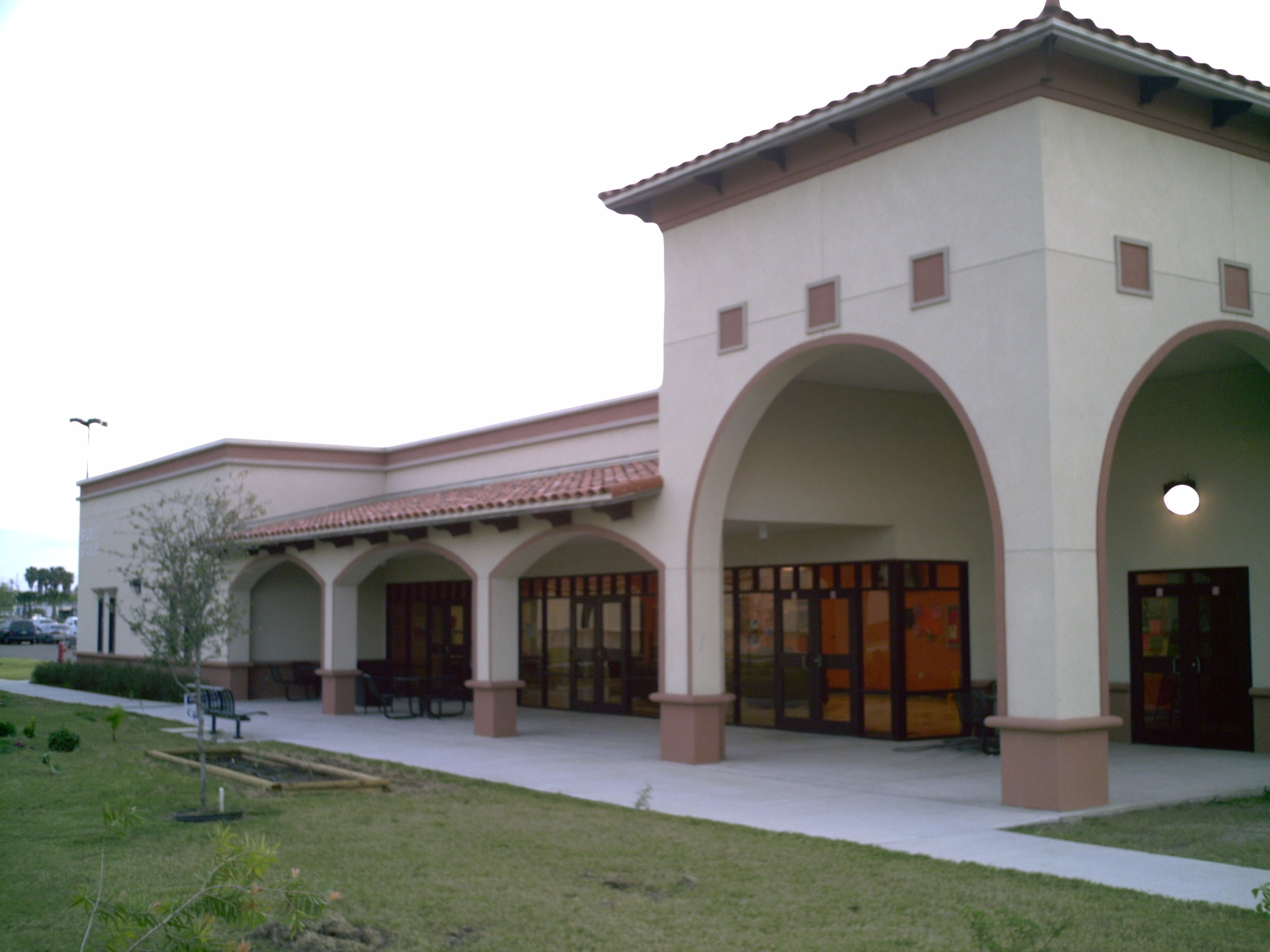 STC MidValley in Weslaco Student Center